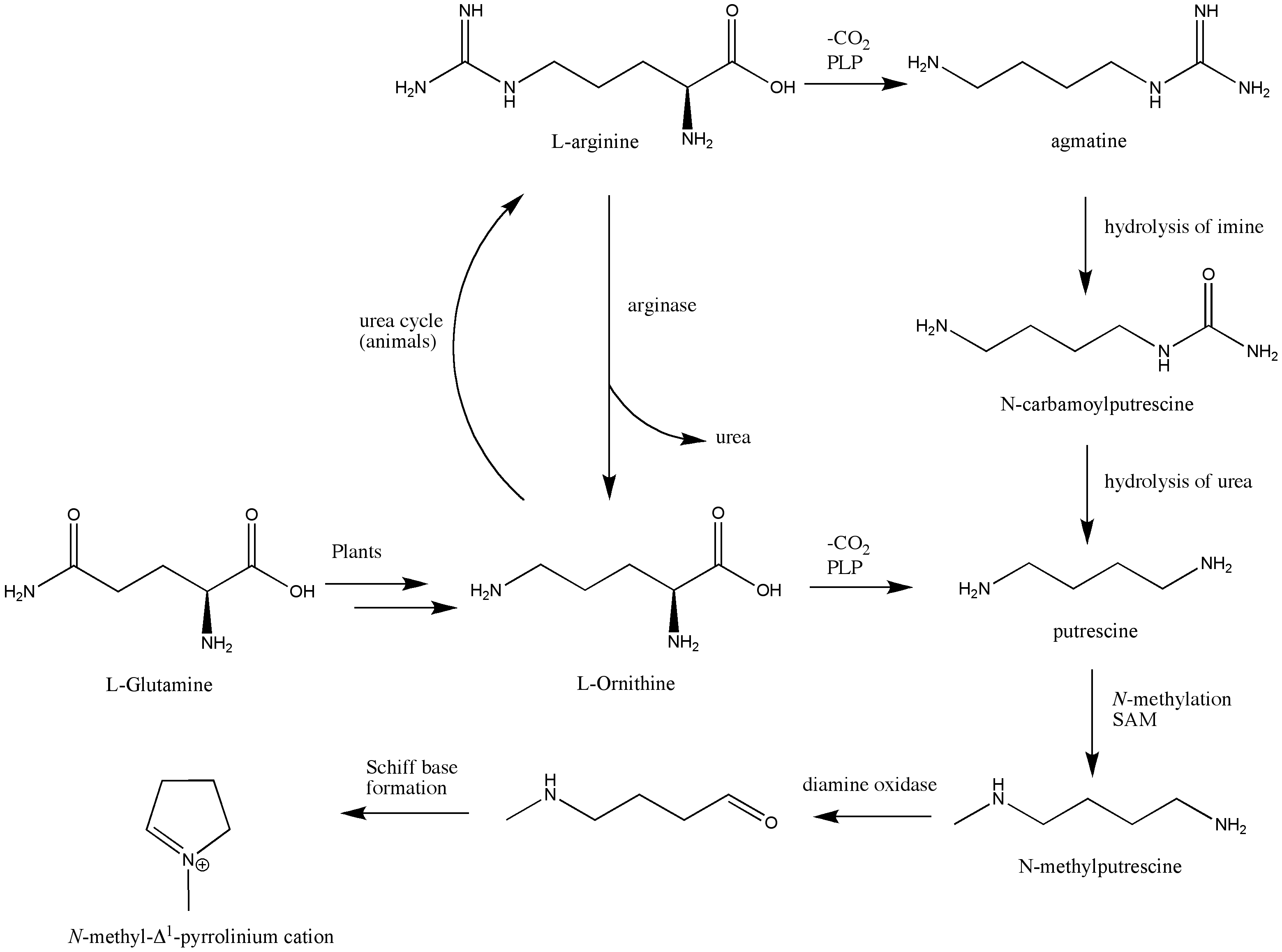 Mechanism for the biosynthesis of N-methyl-pyrrolinium cation, a precursor for cocaine